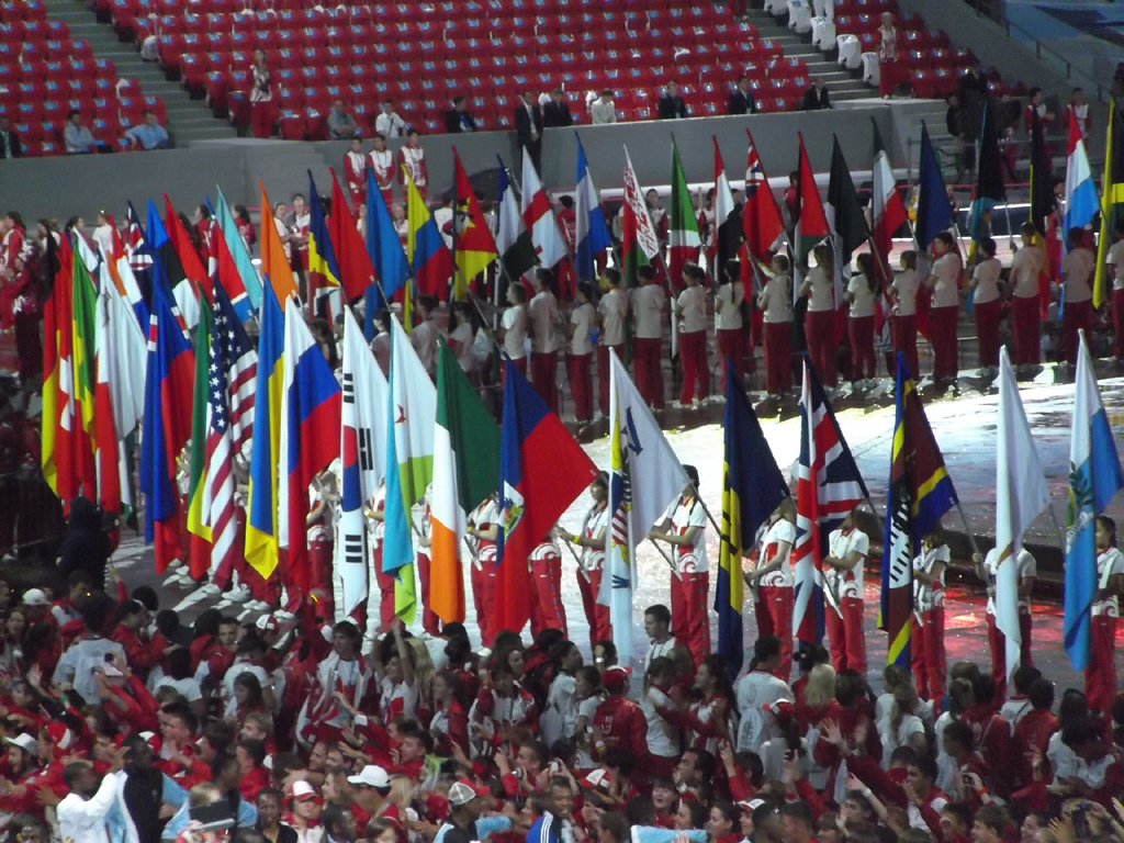 flags of participated countries on Kazan Arena at the closing of 2013 Summer Universiade in Kazan